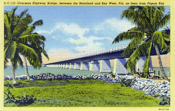 Persistent URL: Local call number: PC1646 Title: "Overseas Highway Bridge, between the Mainland and Key West, as Seen from Pigeon Key" Date: ca. 1920 Physical descrip: 1 postcard - col. - 9 x 14 in. Series Title: Repository: 500 S. Bronough St., Tallahassee, FL, 32399-0250 USA, Contact: 850.245.6700